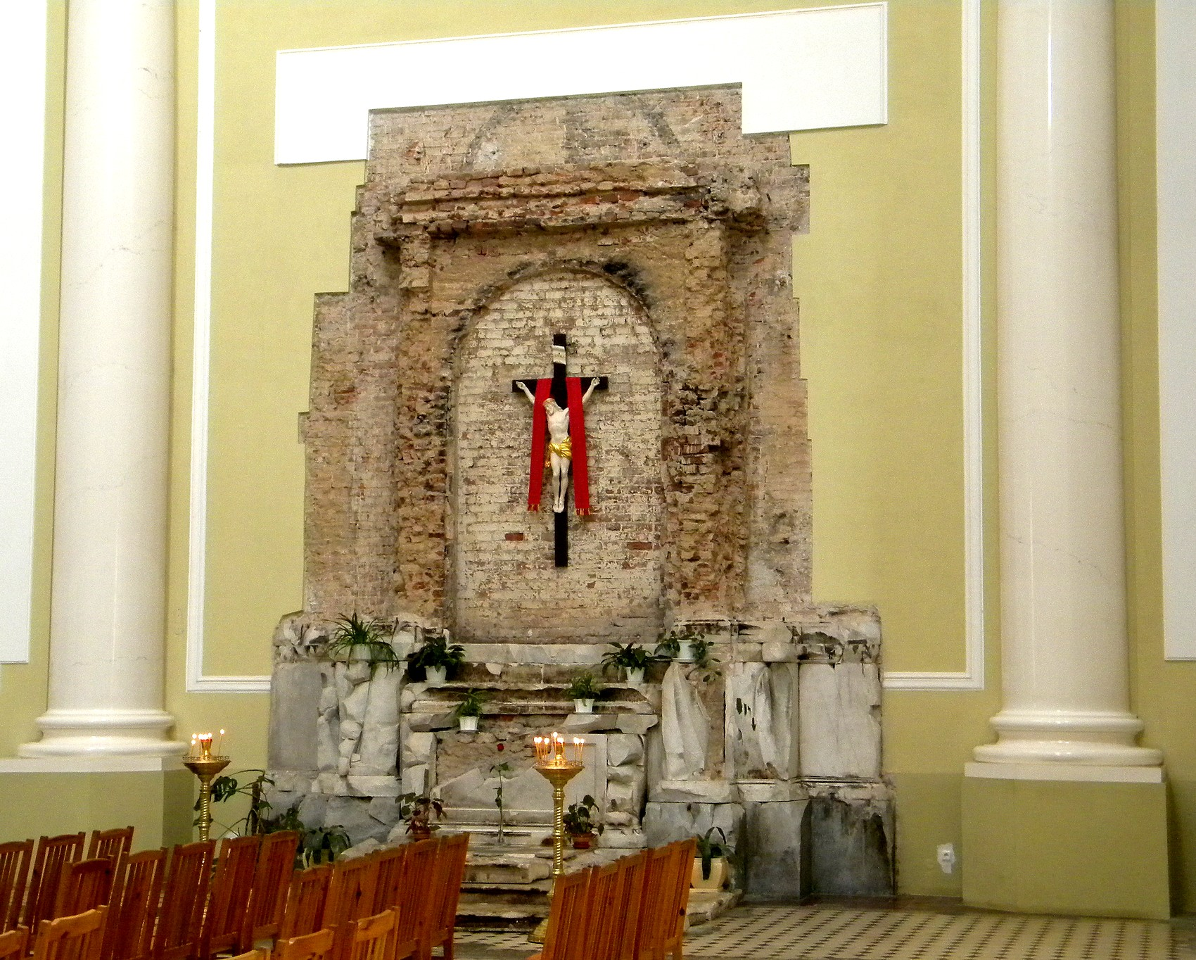 Side Altar of the St.Catherine of Alexandria Church in St.Petersburg, Russia